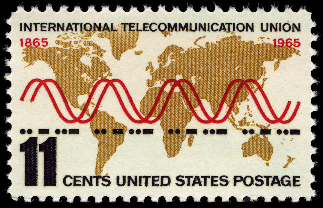 International Telecommunication Union - 1865-1965 - 11-cent 1965 U.S. stamp, commemorating its' 100th anniversary.